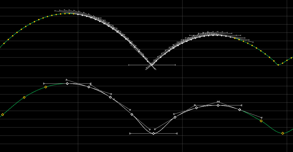 The butterworth filter is ideal for reducing "keyframe clutter" in computer animation. The upper curve contains a keyframe at every point in time. The lower curve is much leaner, but still keeps its sharp edge a the bottom – due to the proper Butterworth filter settings.